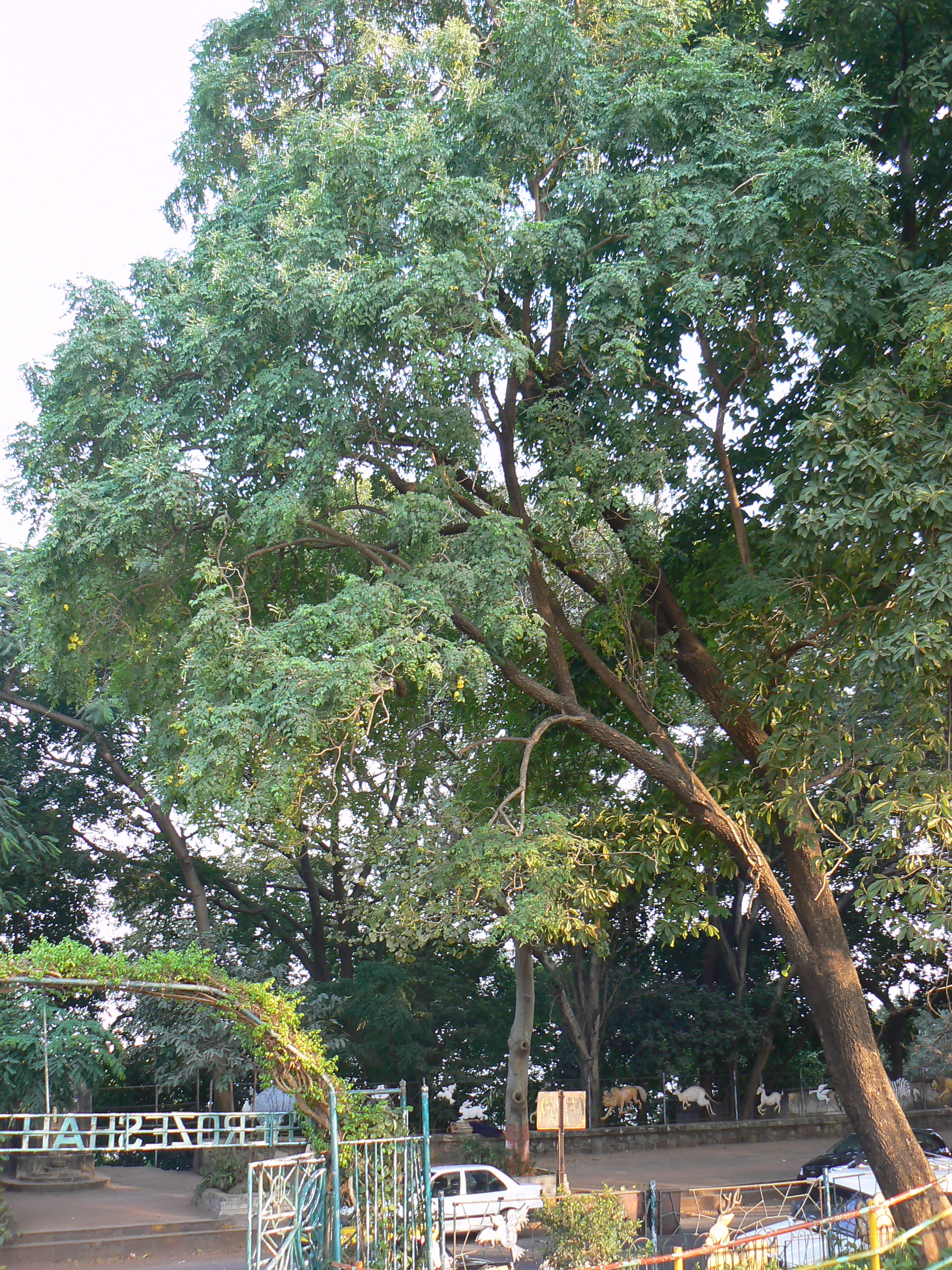 Bignoniaceae (bignonia, or jacaranda family) » Millingtonia hortensis mill-in-TOH-nee-uh -- named for Thomas Millington, an English botanist hor-TEN-sis -- meaning, of or in gardens; cultivated commonly known as: Indian cork tree, tree jasmine • Hindi: नीम चमेली neem chameli • Kannada: akash mallige, beratu, ಬಿರಾತೆ ಮರಾ birate mara • Konkani: आकासनिम्ब akasnimb • Malayalam: കടെസമ് katesam • Marathi: आकाश चमेली akash chameli, बुच buch, कावल निम्ब or कावळ निम्ब kaval nimb • Oriya: ବକେନୀ bakeni, ମଚ୍ ମଚ୍ mach-mach, sitahara • Tamil: கட் மல்லீ kat-malli • Telugu: కవుకీ kavuki Origin: Myanmar (Burma) ... tall deciduous tree ... leaves pinnately compound ... flowers in corymbose panicles, long tubular, white and fragrant. References: Flowers of India • Top Tropicals